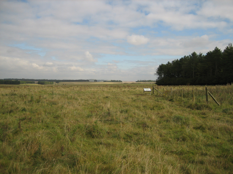 A shot of chalk grassland at the site of the Cursus, one of the ancient monuments found in the Stonehenge Landscape